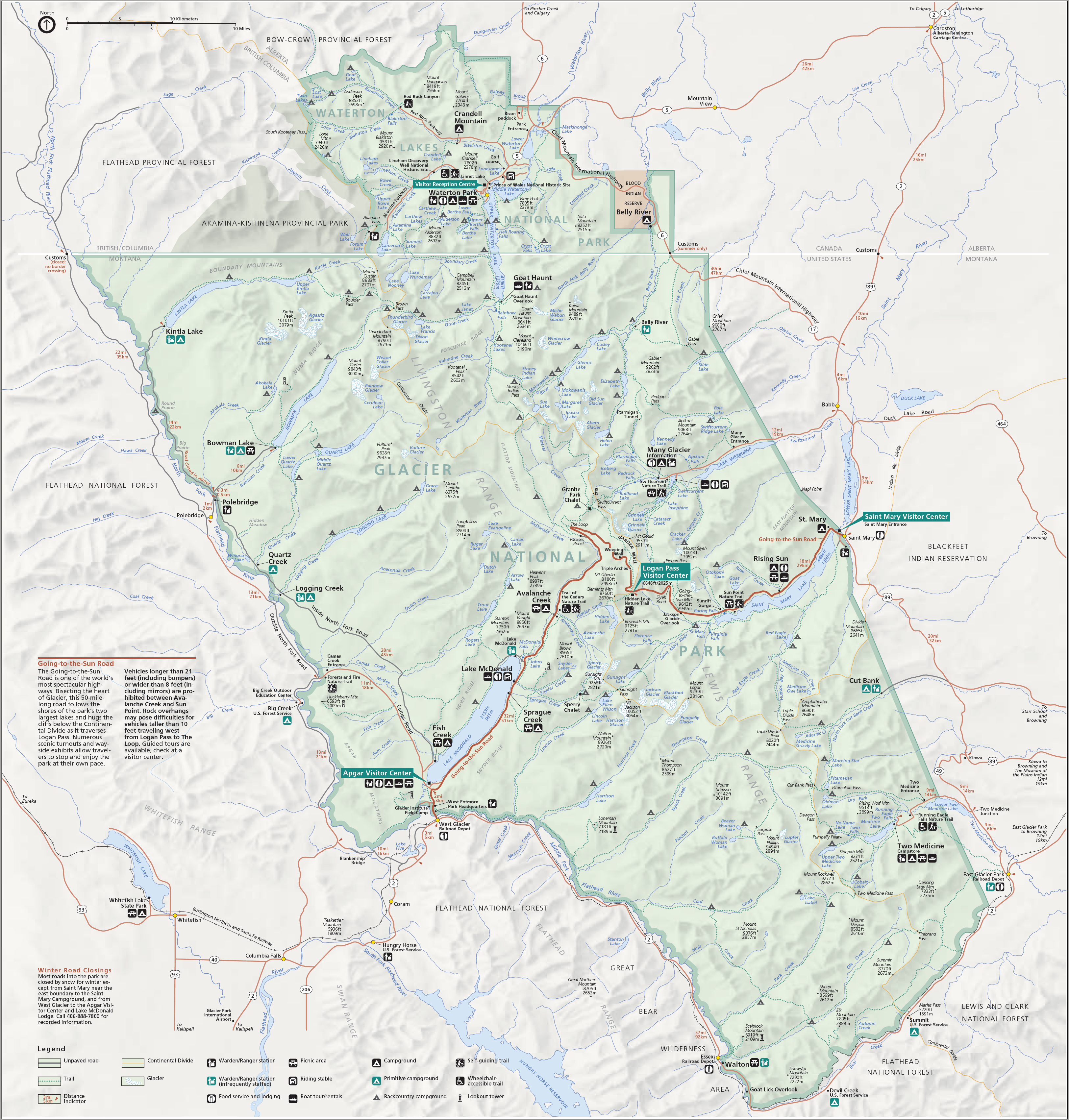 Map of Glacier National Park